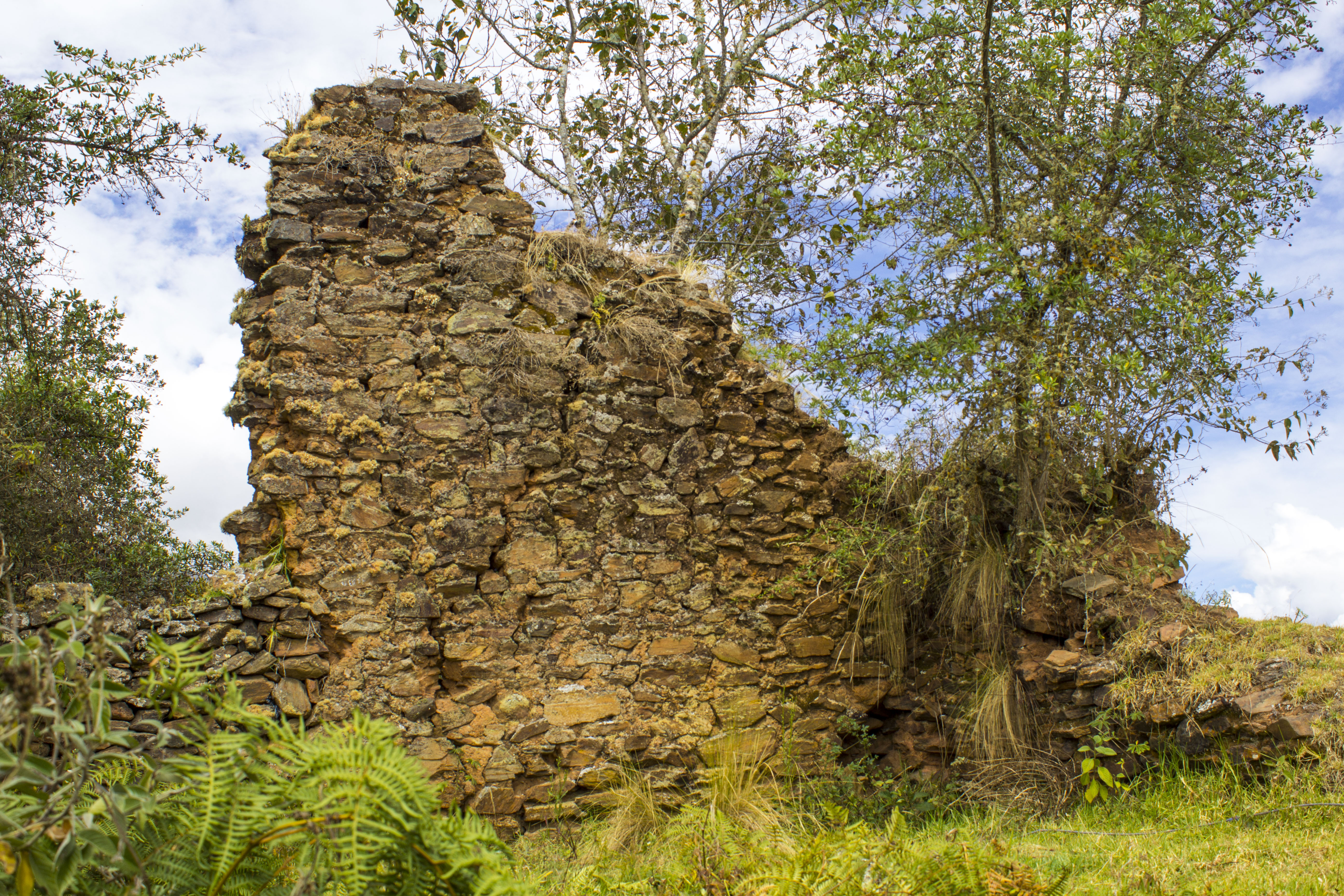 Archaeological Center of Ichu Yanuna.